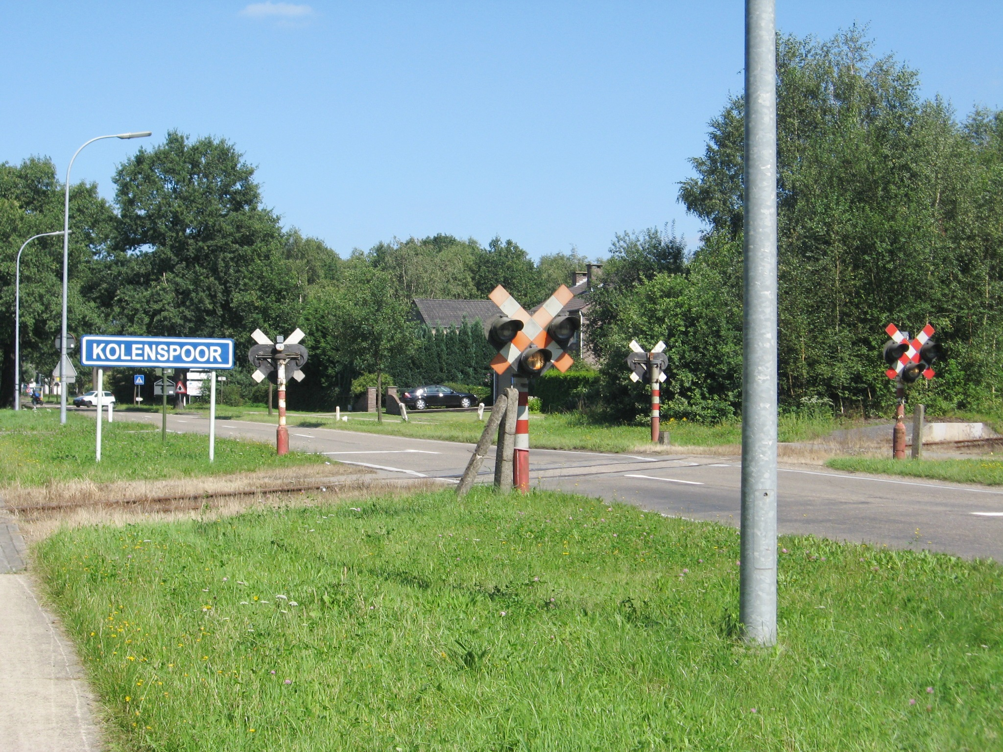 Railway 21A between Waterschei and As in As, Limburg, Belgium